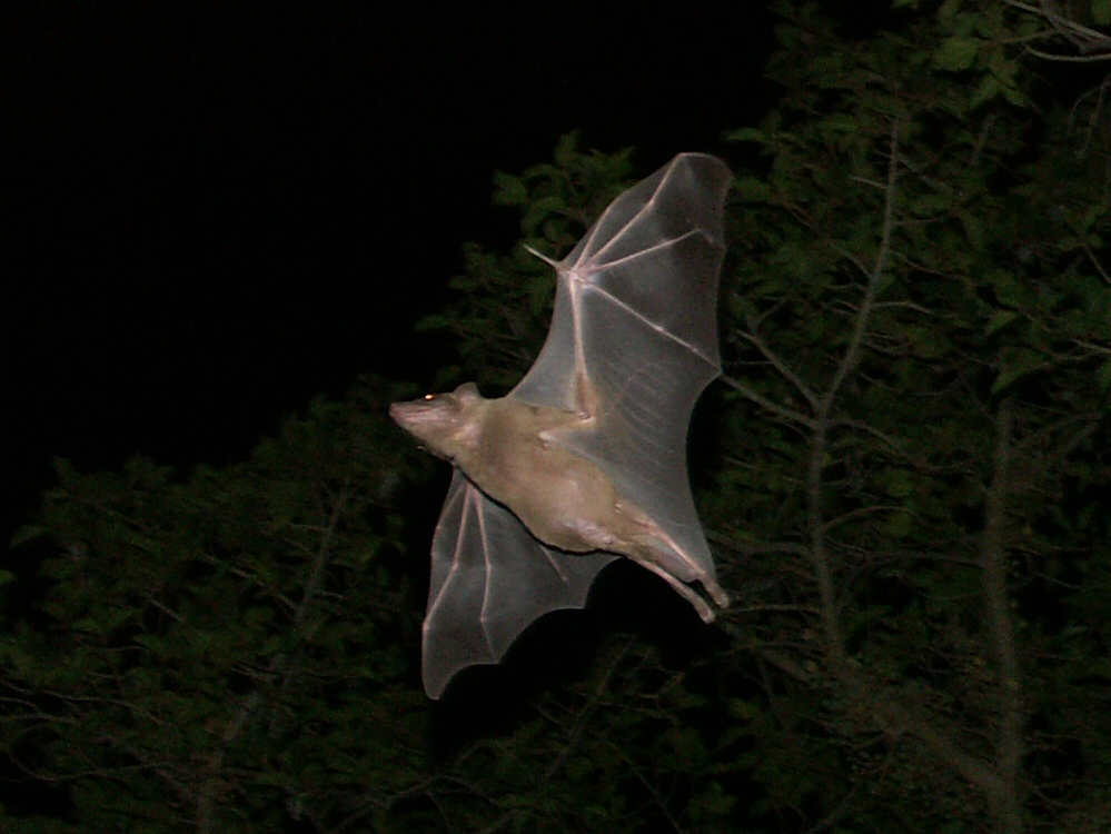 Egyptian Fruit Bat (Rousettus aegyptiacus) in flight. Taken at Rothschild Boulevard, Tel Aviv, Israel.